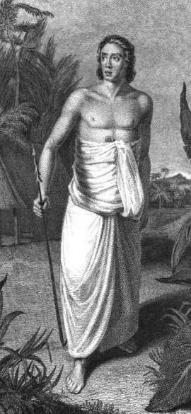 An engraving showing William Mariner in Tongan costume.